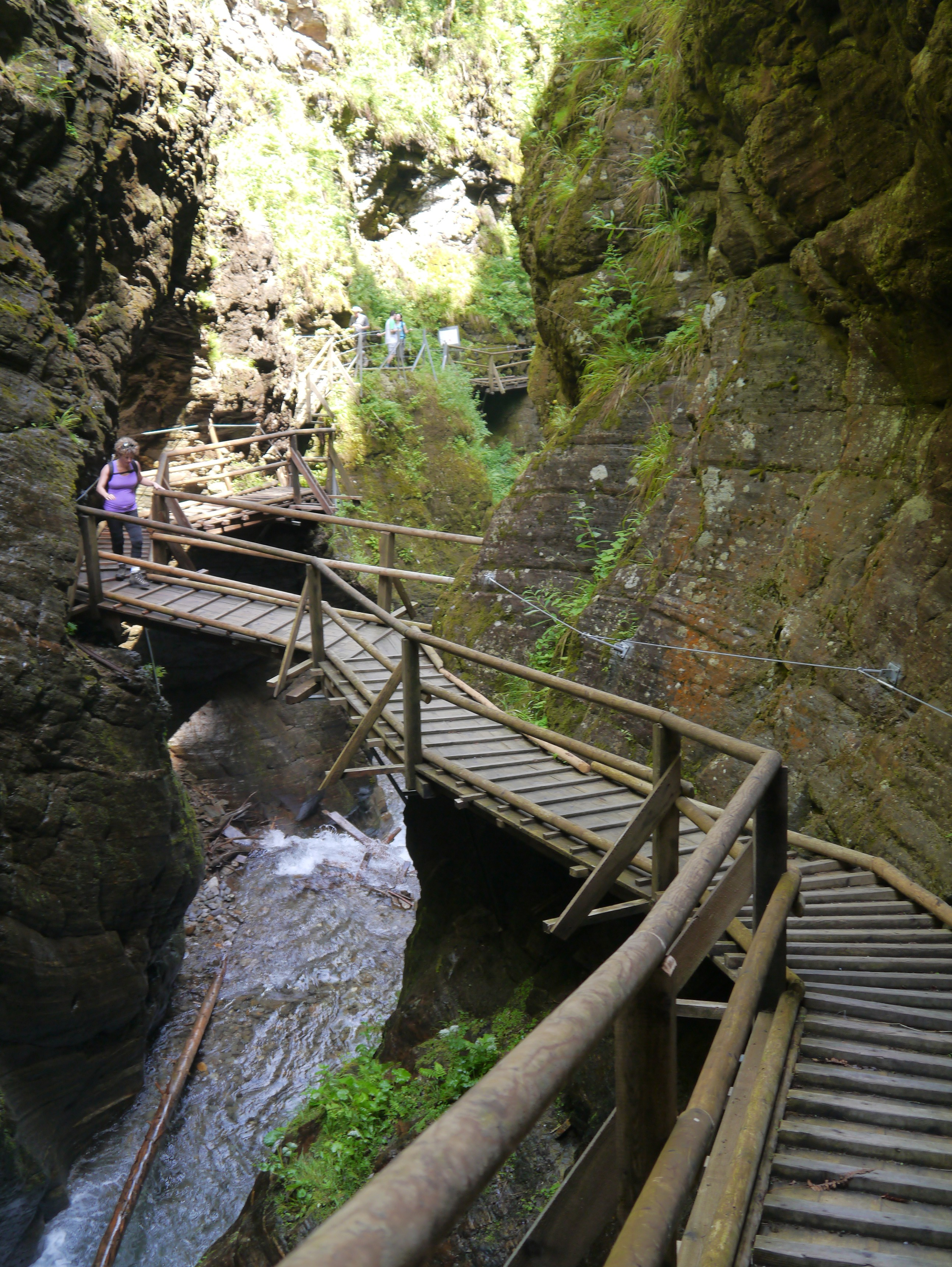 Ragga ravine near Flattach, Carinthia, Austria